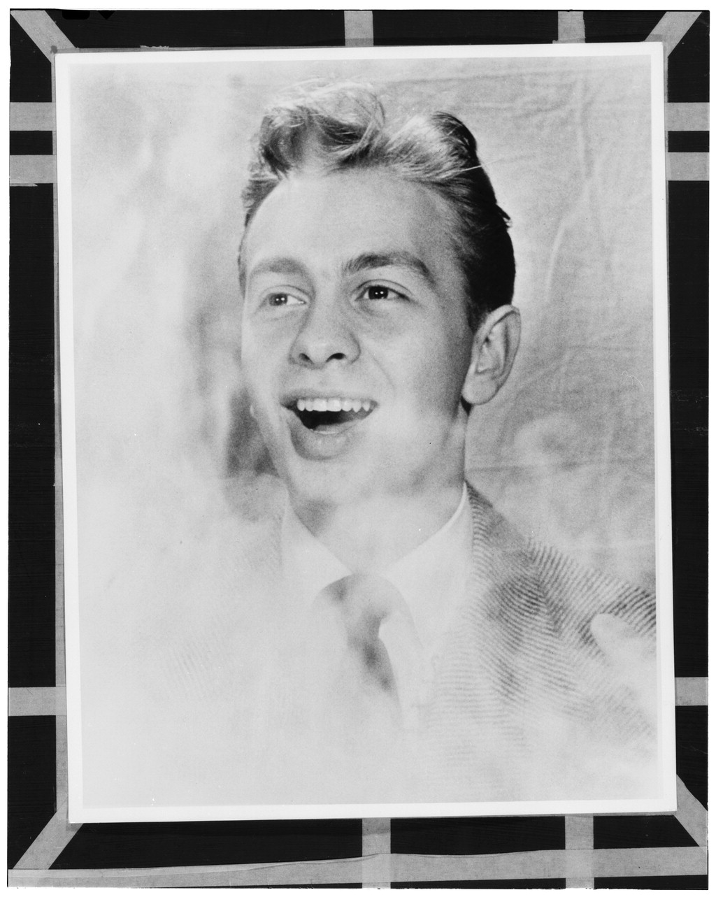 Mel Tormé